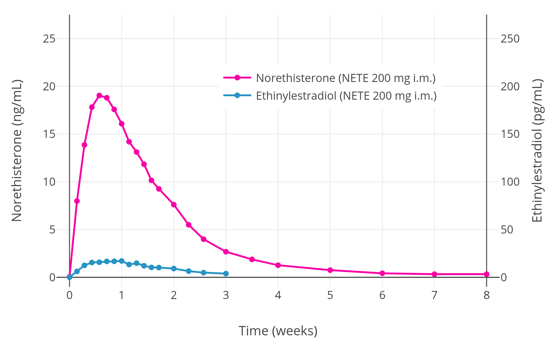 Levels of norethisterone (ng/mL) and ethinylestradiol (pg/mL) after a single intramuscular injection of 200 mg norethisterone enanthate (NETE) in 16 healthy premenopausal women. Source of the values: (June 2018). "In Vivo Formation of Ethinylestradiol After Intramuscular Administration of Norethisterone Enantate". J Clin Pharmacol 58 (6): 781–789. PMID 29522253.